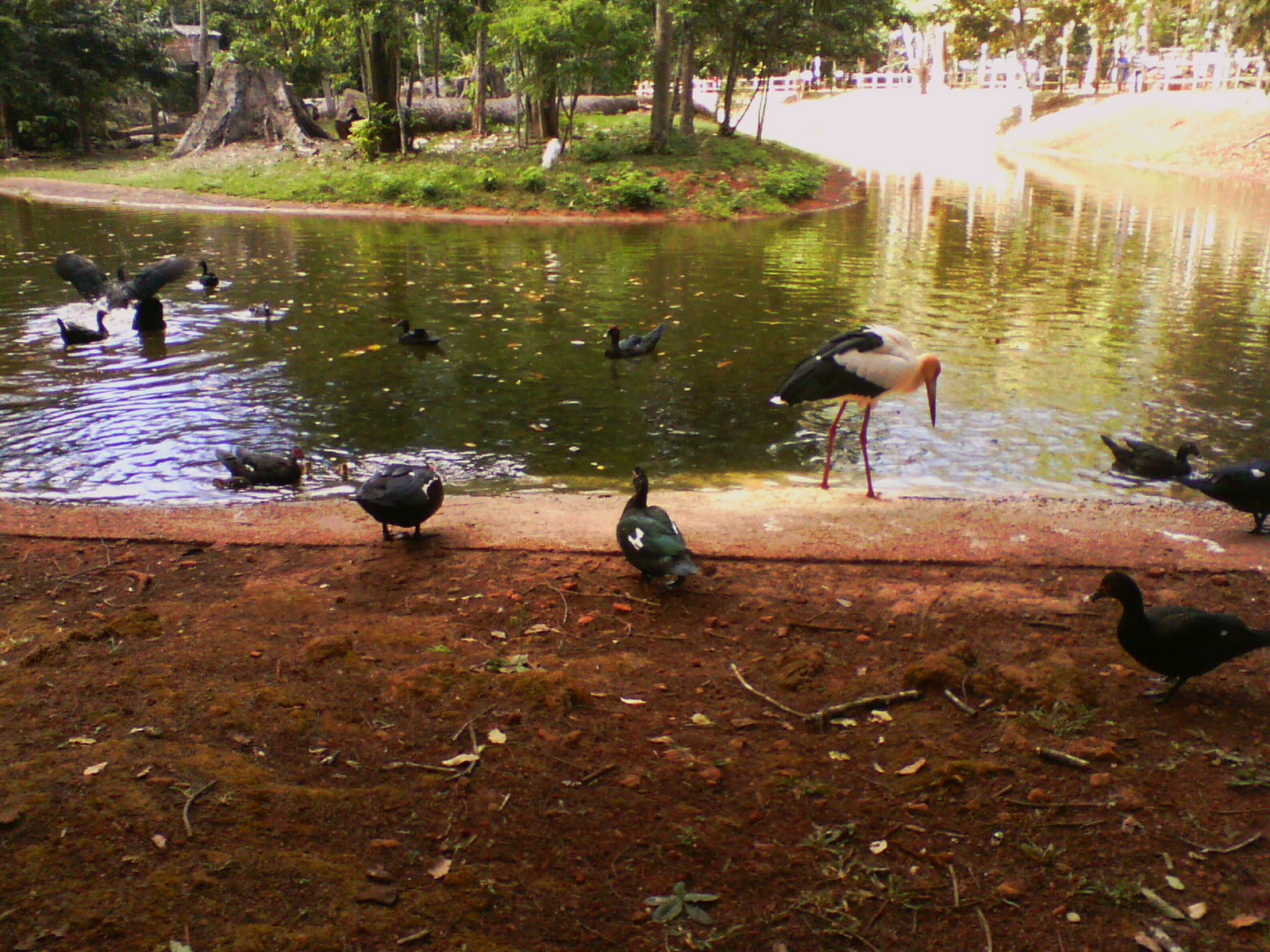 Image taken in the zoobotanical park of Parauapebas